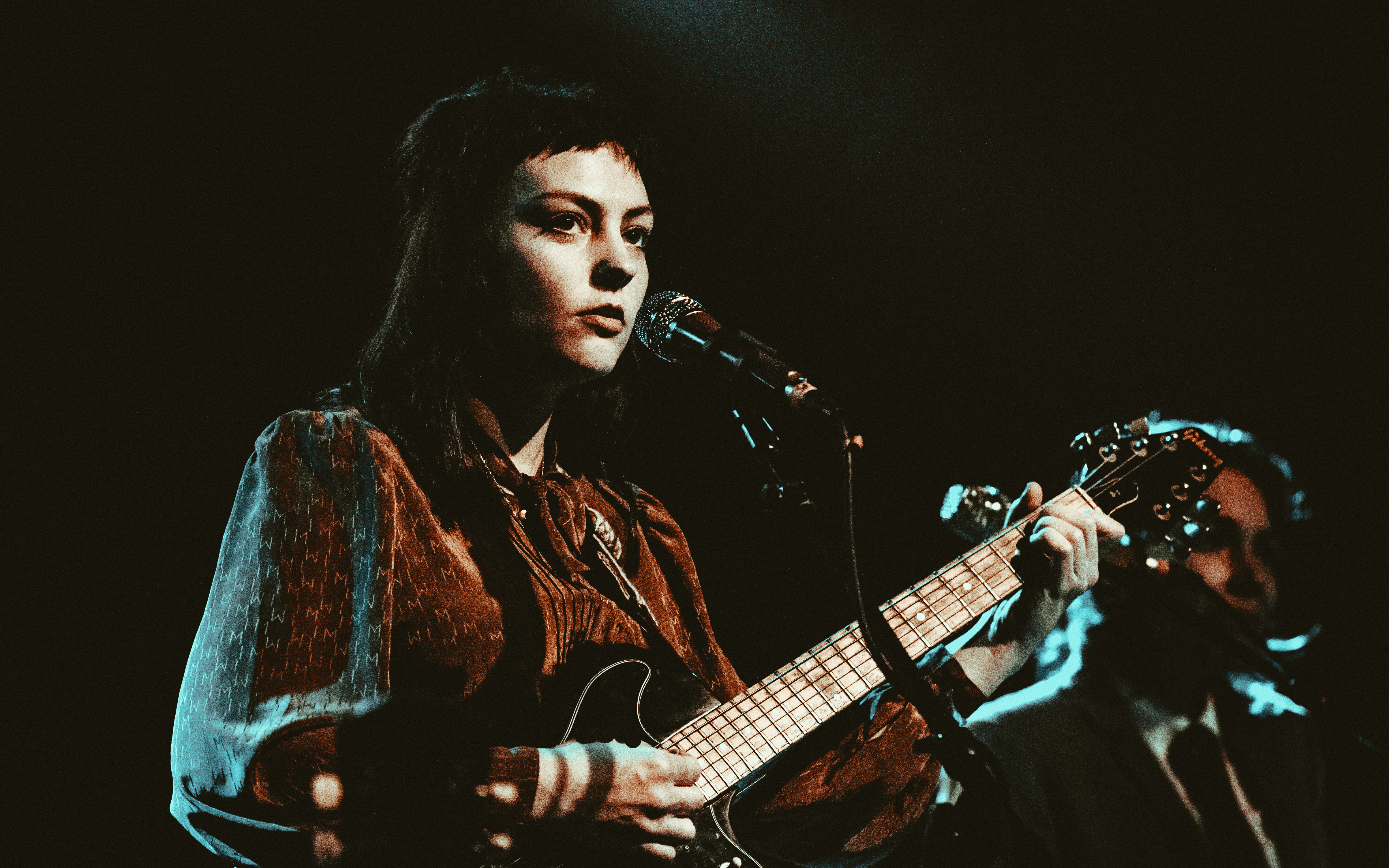 Angel Olsen photographed by Cal Quinn at Trees in Dallas, Texas 2.8.17